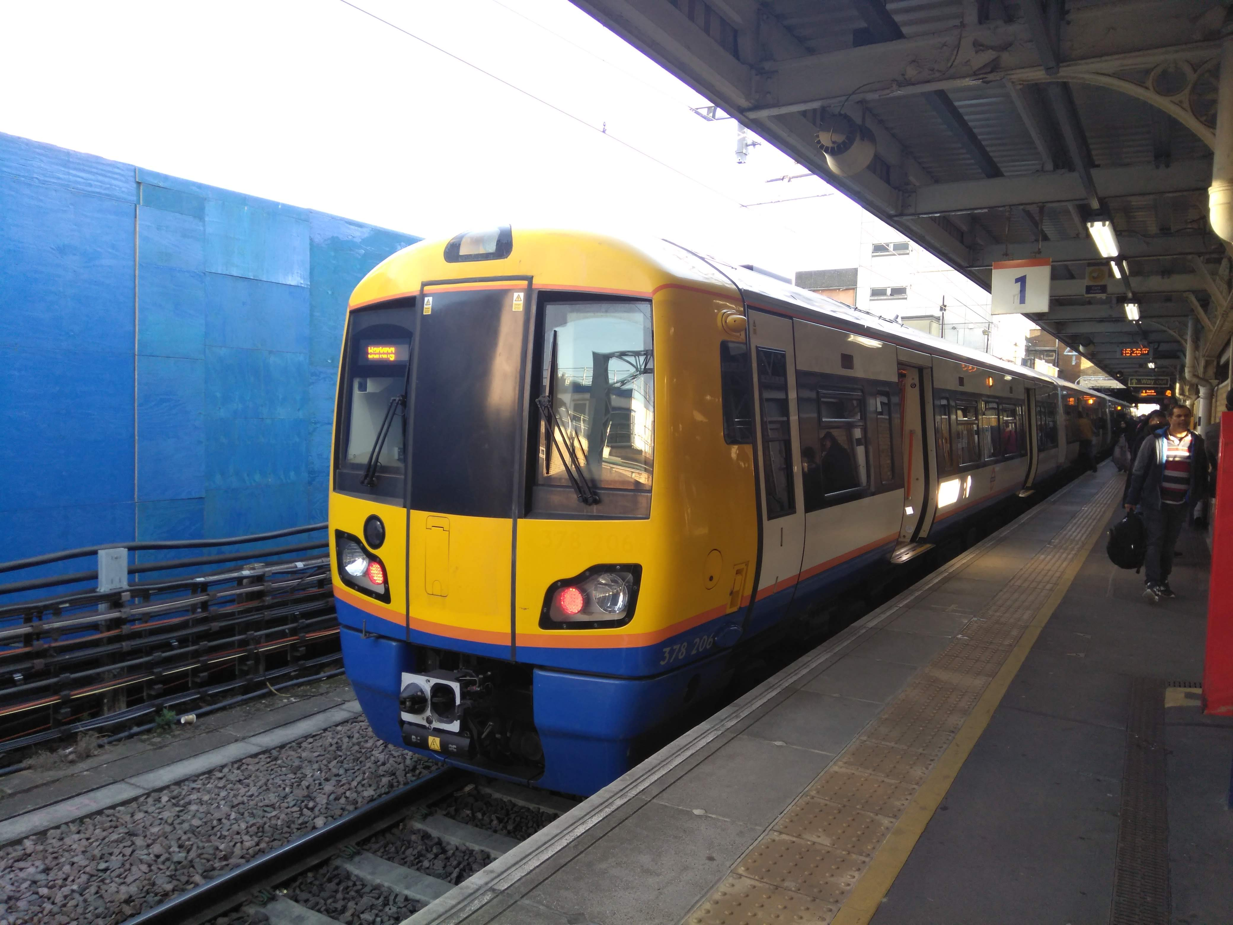 London Overground unit 378206 stands at Barking station forming a service to Gospel Oak